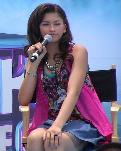 Zendaya at the "Make Your Mark: Ultimate Dance Off 'Shake It Up' edition